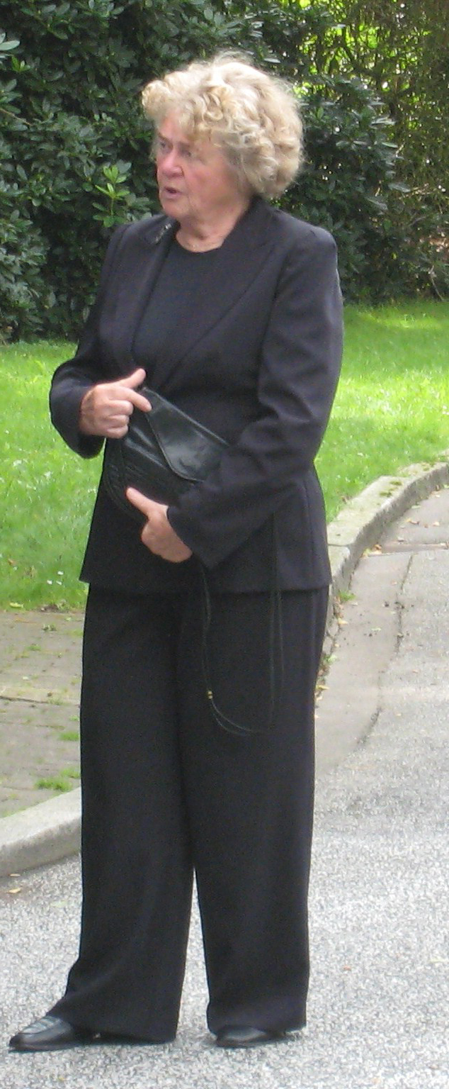 Actresses Ursula Hinrichs